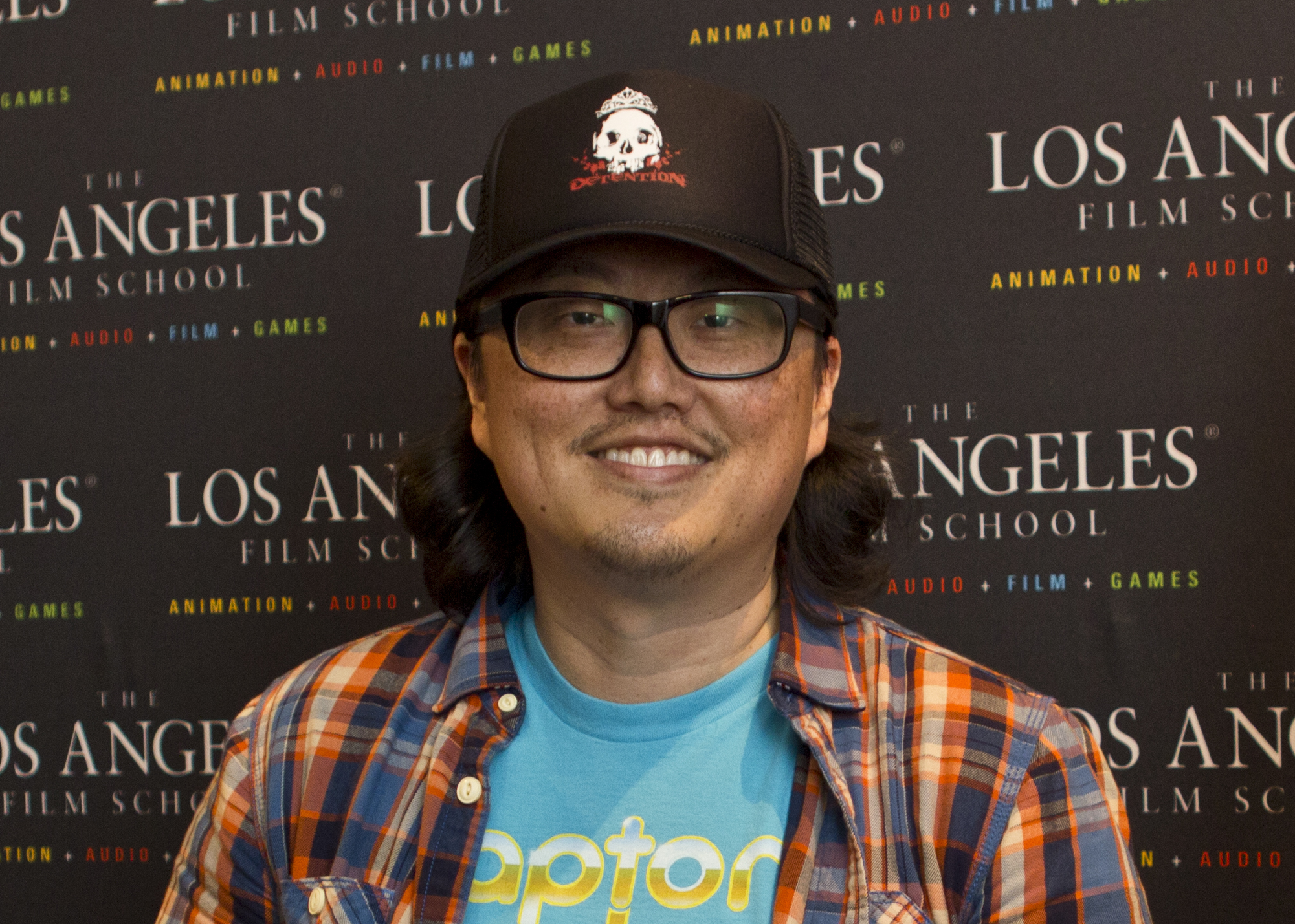 Director Joseph Kahn at the screening of his movie "Detention" at the LA Film School, April 2012.